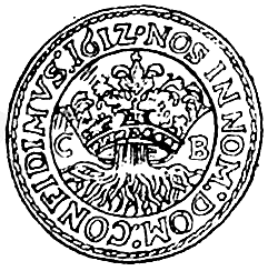 CoA of Braşov, Romania on Braşov's minted coins (1601 - 1614)